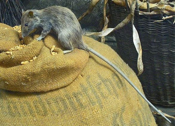 Black Rat, Ship Rat, Roof Rat, House Rat, Alexandrine Rat, Old English Rat; Staatliches Museum für Naturkunde Karlsruhe, Germany.